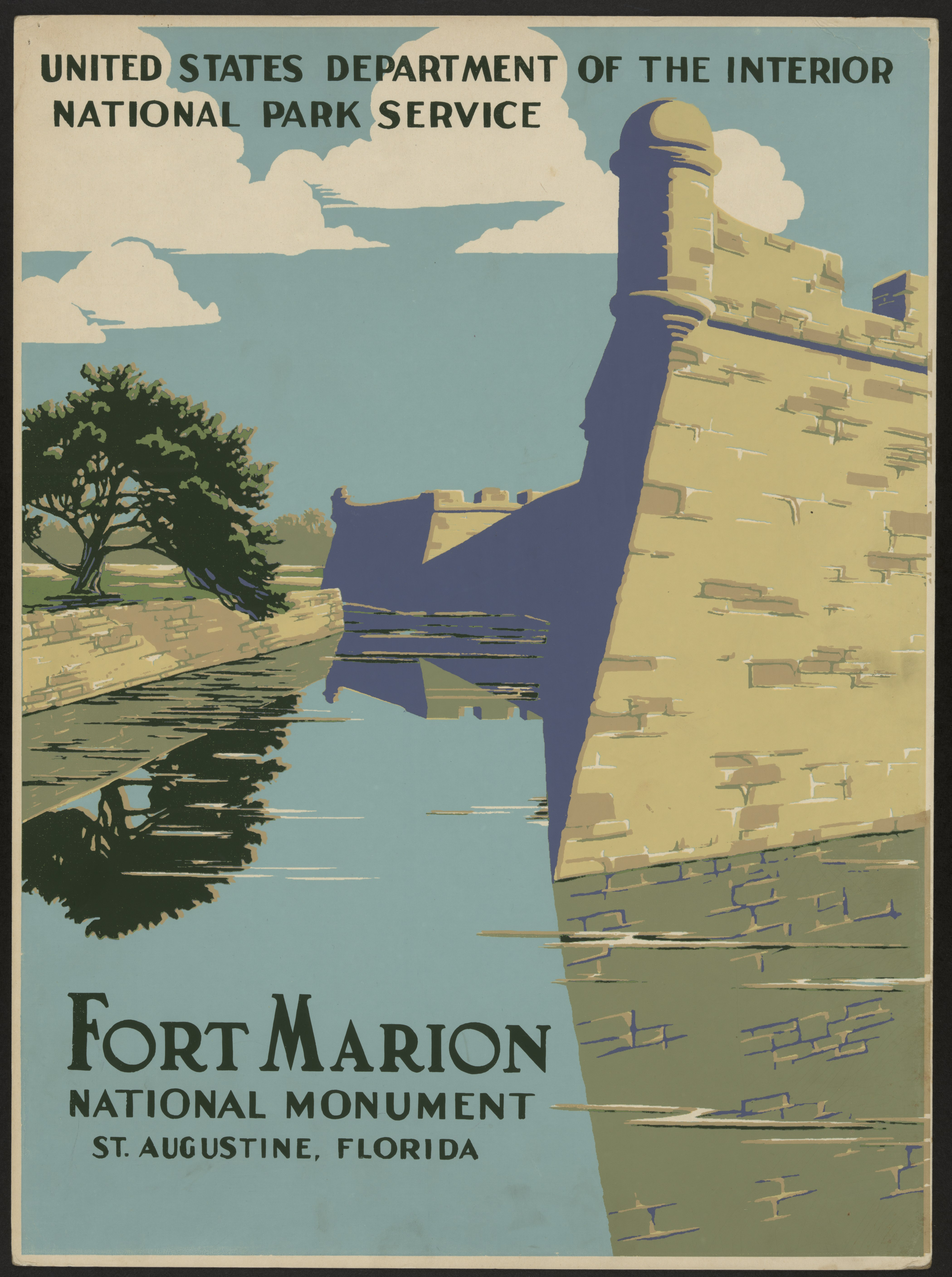 Title: Fort Marion National Monument, St. Augustine, Florida Abstract: Poster shows view of Fort Marion (Castillo de San Marcos). Physical description: 1 print (poster) : screen, color ; 48 x 36 cm. Notes: Work Projects Administration Poster Collection (Library of Congress).; Title from item.